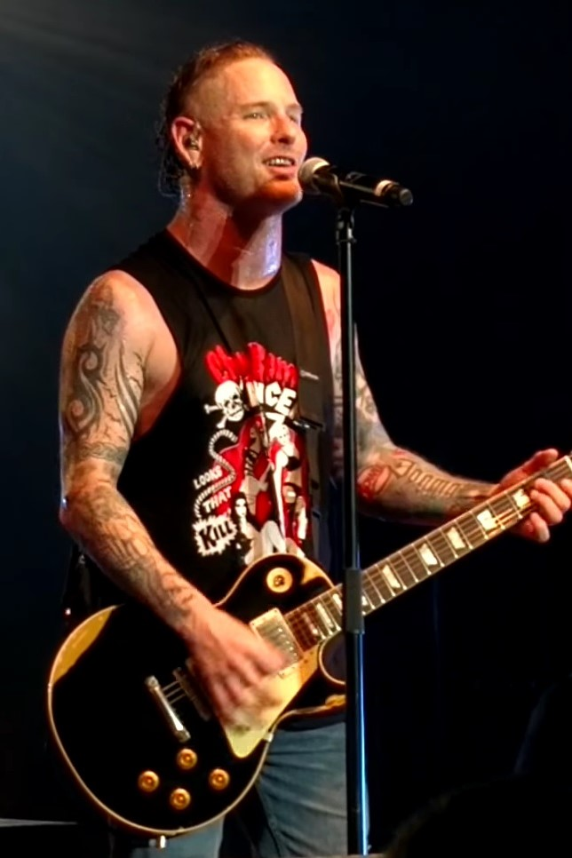 Corey Taylor performing with Stone Sour 2/17/18 The Rave Milwaukee WI